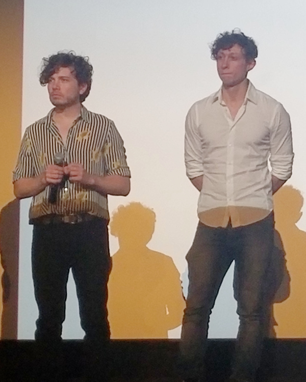 Filipe Matzembacher and Marcio Reolon at a Q&A session for Hard Paint at Frameline at the Castro Theatre in San Francisco, California, United States